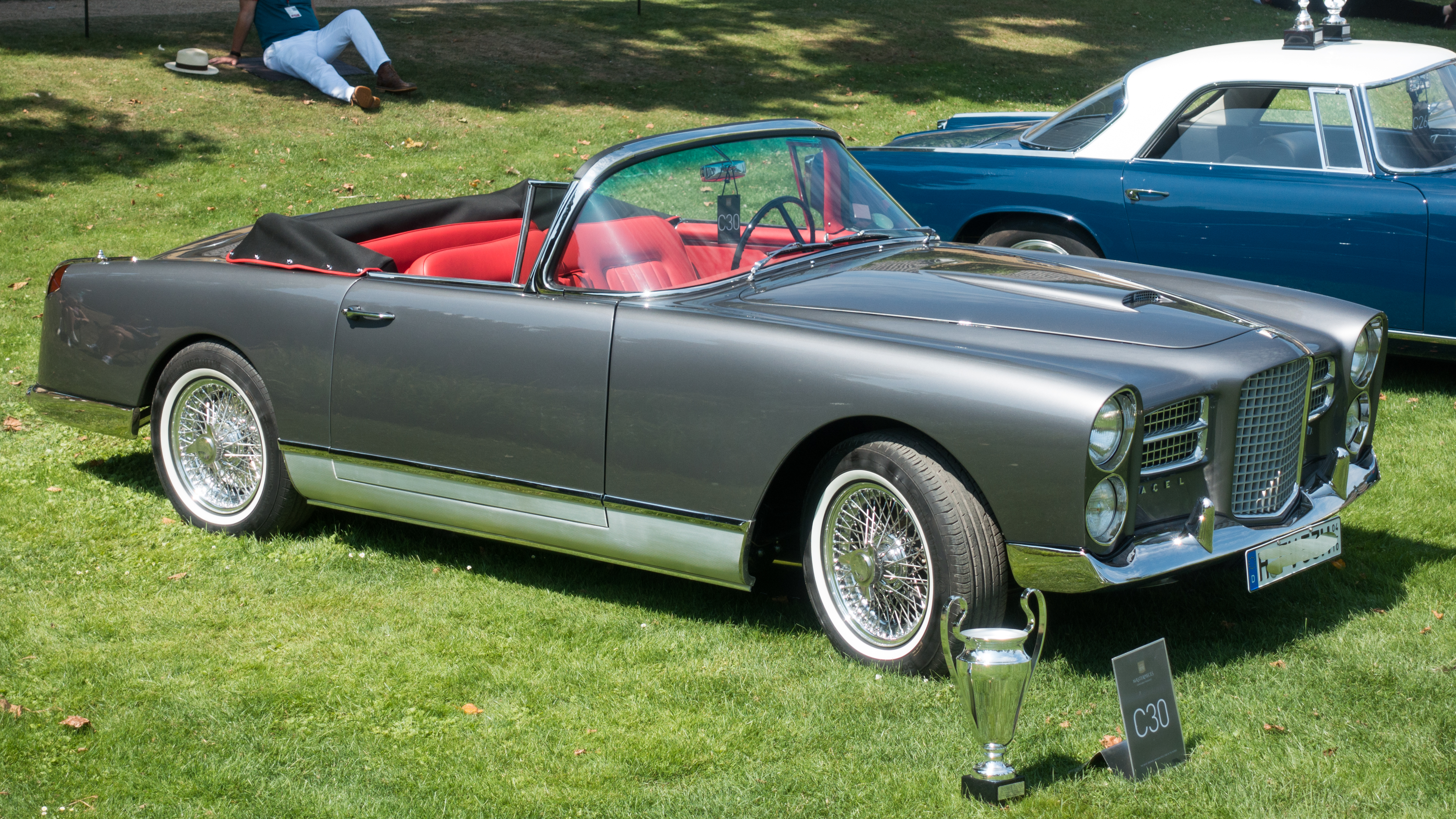 Facel Vega FV3 (1957) at Classic Days 2019 Schloß Dyck